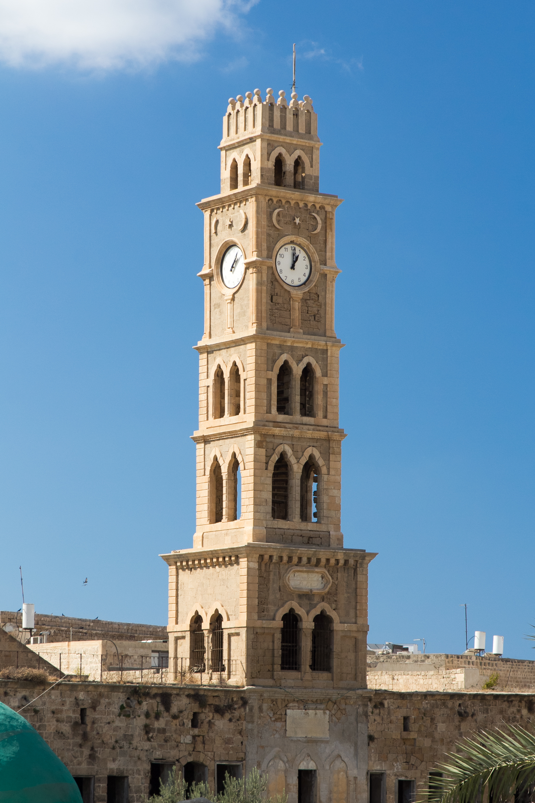 Acre clock tower in the old city of Acre, Israel